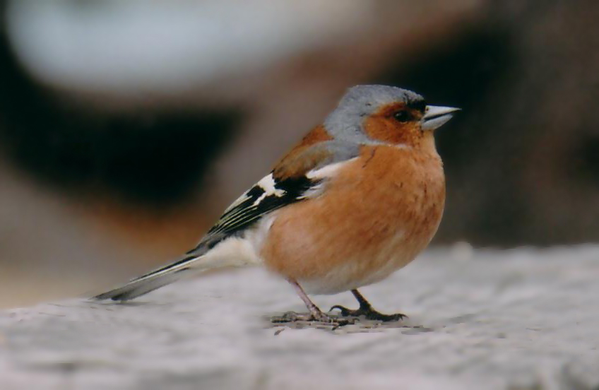 Chaffinch, Abel Tasman NP, New Zealand